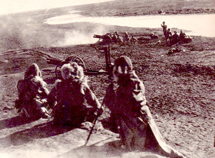 Japanese field artillery of Tamon's Division (2nd Division) near Chiang-ch'iao (Jiangqiao)